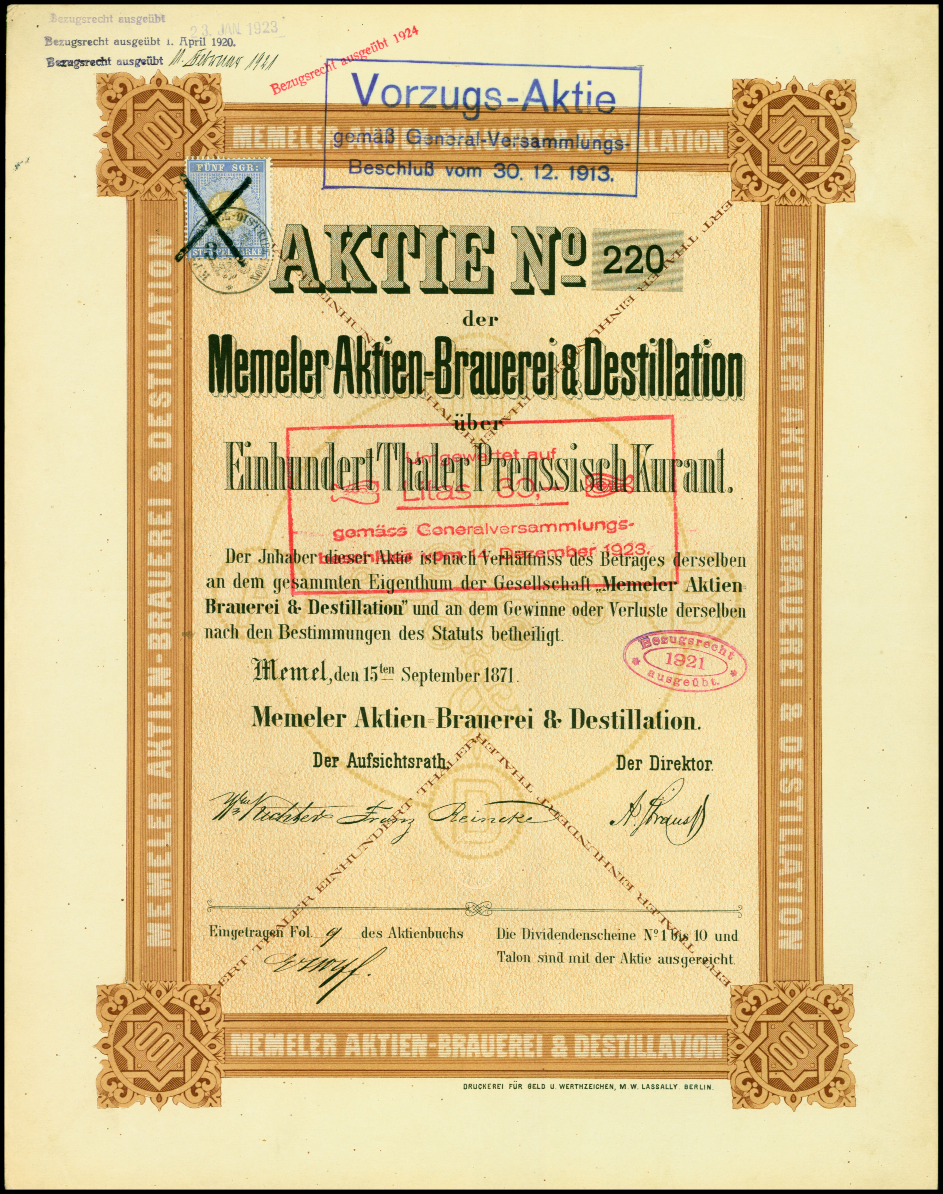 Share of the Memeler Aktien-Brauerei & Destillation, issued 15. September 1871